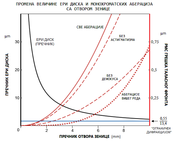 МОНОХРОМАТСКЕ АБЕРАЦИЈЕ ОКА